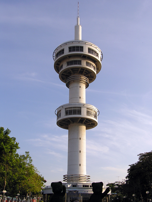 Banharn-Jamsai Tower at Suphanburi, Thailand